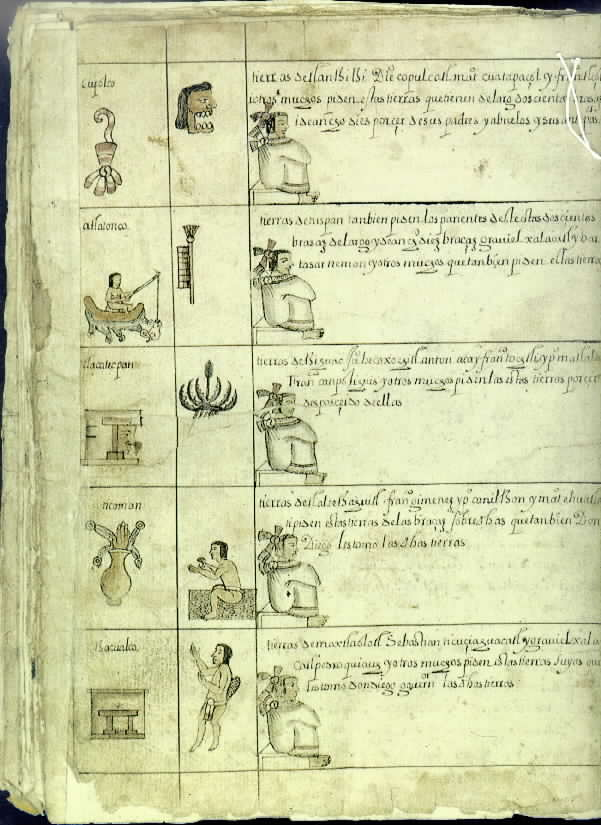 Codex Cozcatzin.